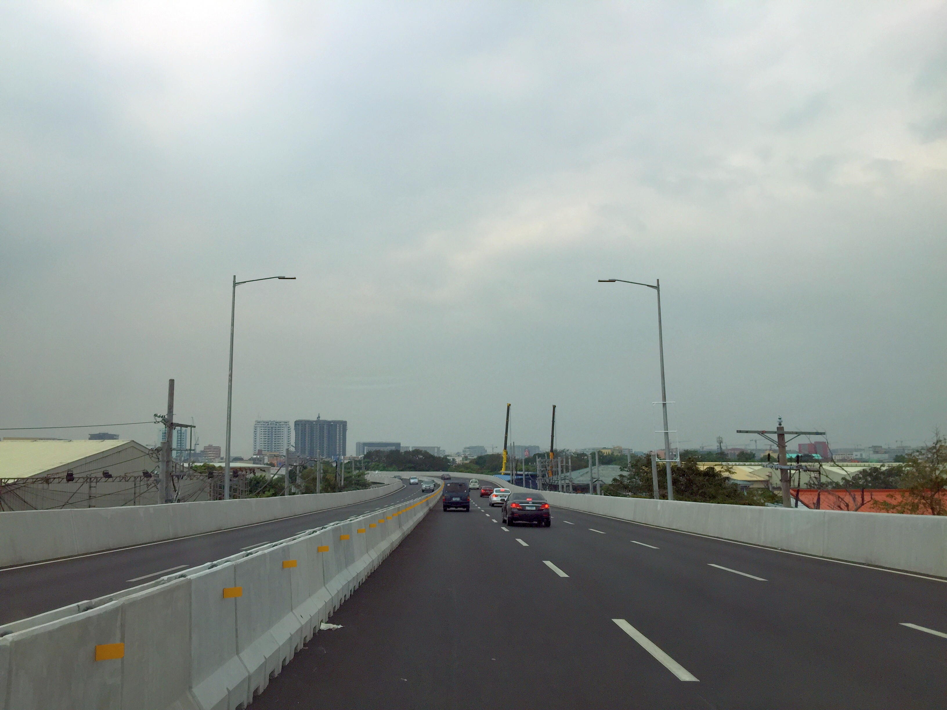 NAIA Expressway (NAIAX) heading south on Electrical Road from Andrews Avenue (NAIA Terminal 3) in Pasay, Metro Manila